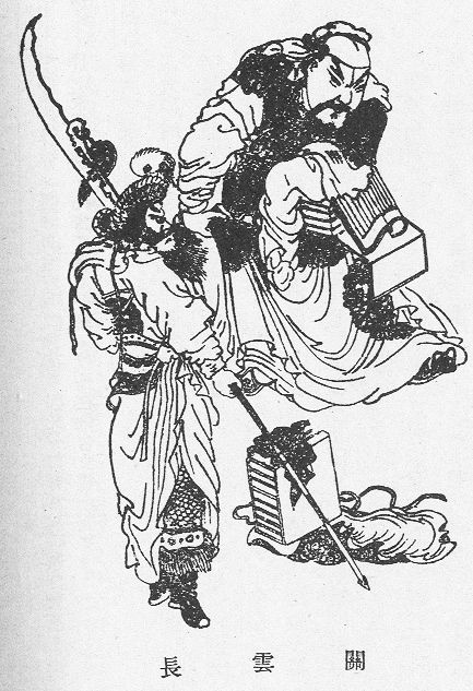 Image depicting Guan Yu and the bandit Zhou Cang. From a Qing Dynasty edition of The Romance of the Three Kingdoms.